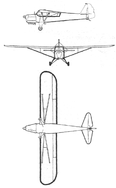 Three side view of the Auster AOP.6 observation aircraft.